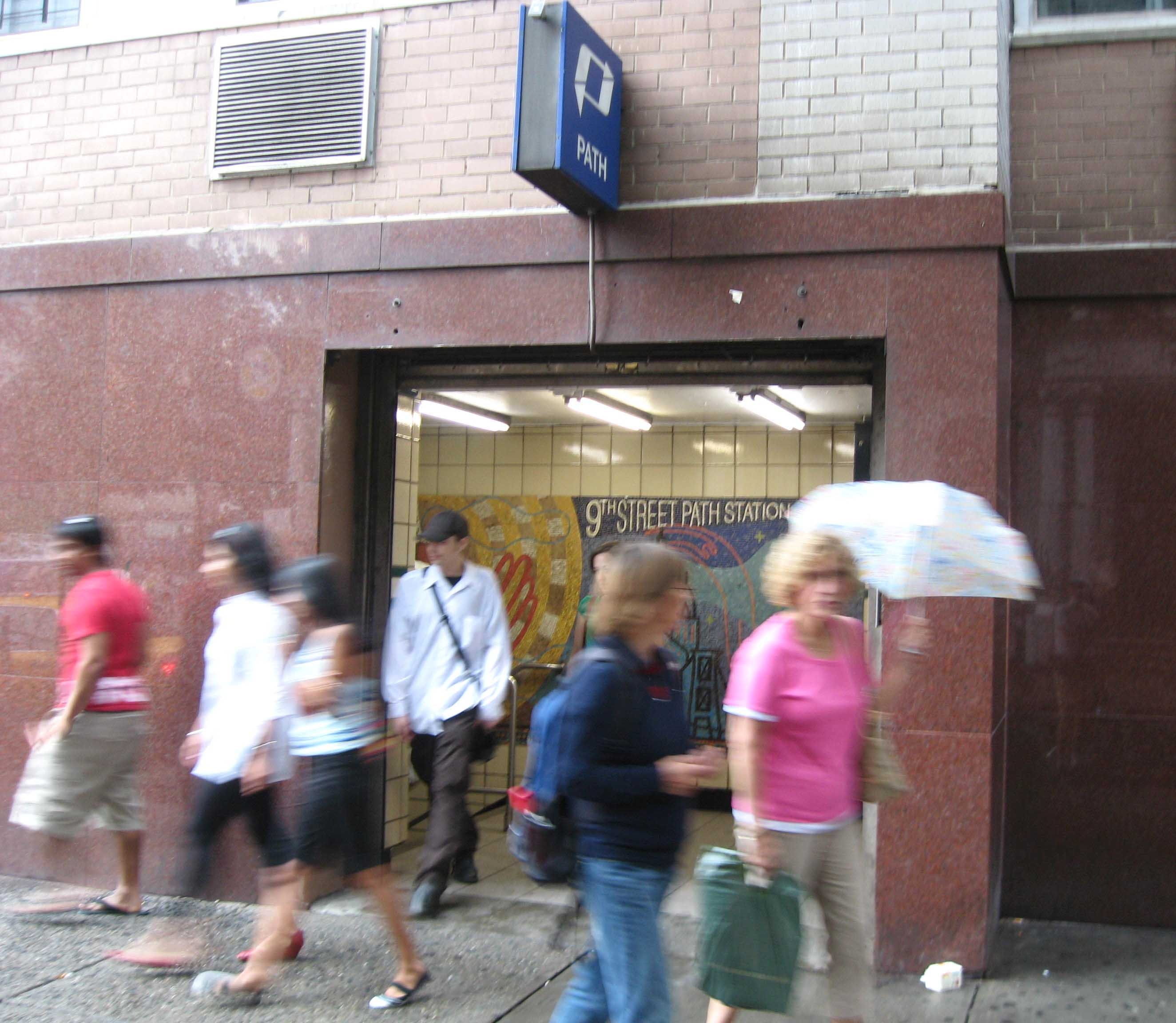 Looking north at en:9th Street (PATH station) on a rainy afternoon.